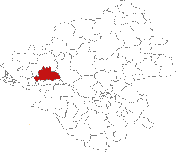 Map of canton of France : Canton de Montoir de Bretagne, Loire-Atlantique, France